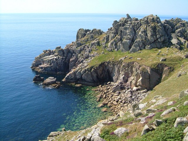 Coast at Cripp's Cove The west side of the granite Logan Rock peninsula. The twin rocks of Tar complete the enclosure of the south end of Cripp's Cove; the headland behind them is across a gridline in SW3921.